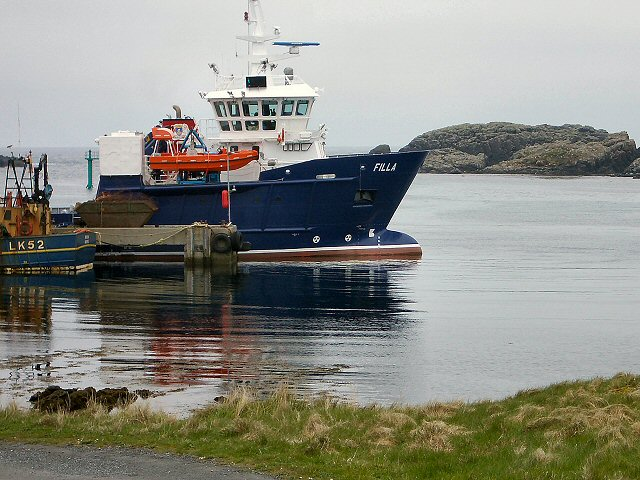 The Filla in Out Skerries harbour, Shetland, Scotland